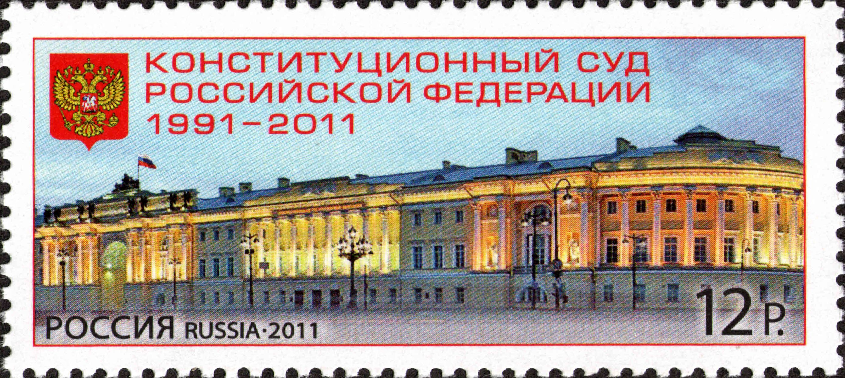 Constitutional Court of Russia: 1991—2011. The stamp of Russia, 12.00 Rubles, 27 October 2011, Catalogue of PTC Marka No 1540, Michel No 1772. The headquarters of Constitutional Court of Russia in Saint Petersburg, the former Senate and Synod Building; the coat of arms of Russian Federation (on the top left).